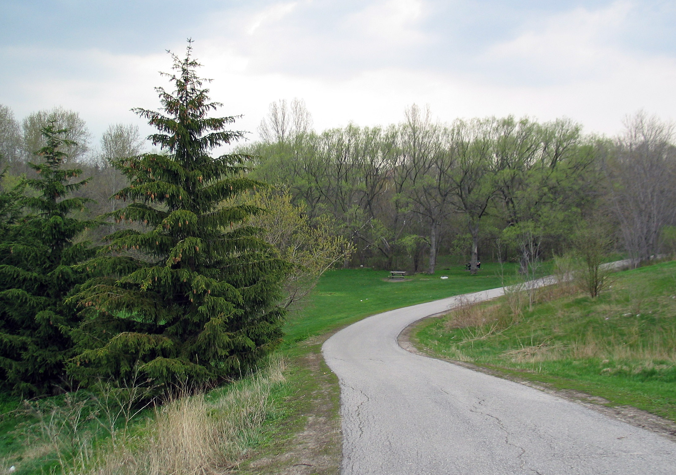 G Ross Lord Park / Toronto, Canada